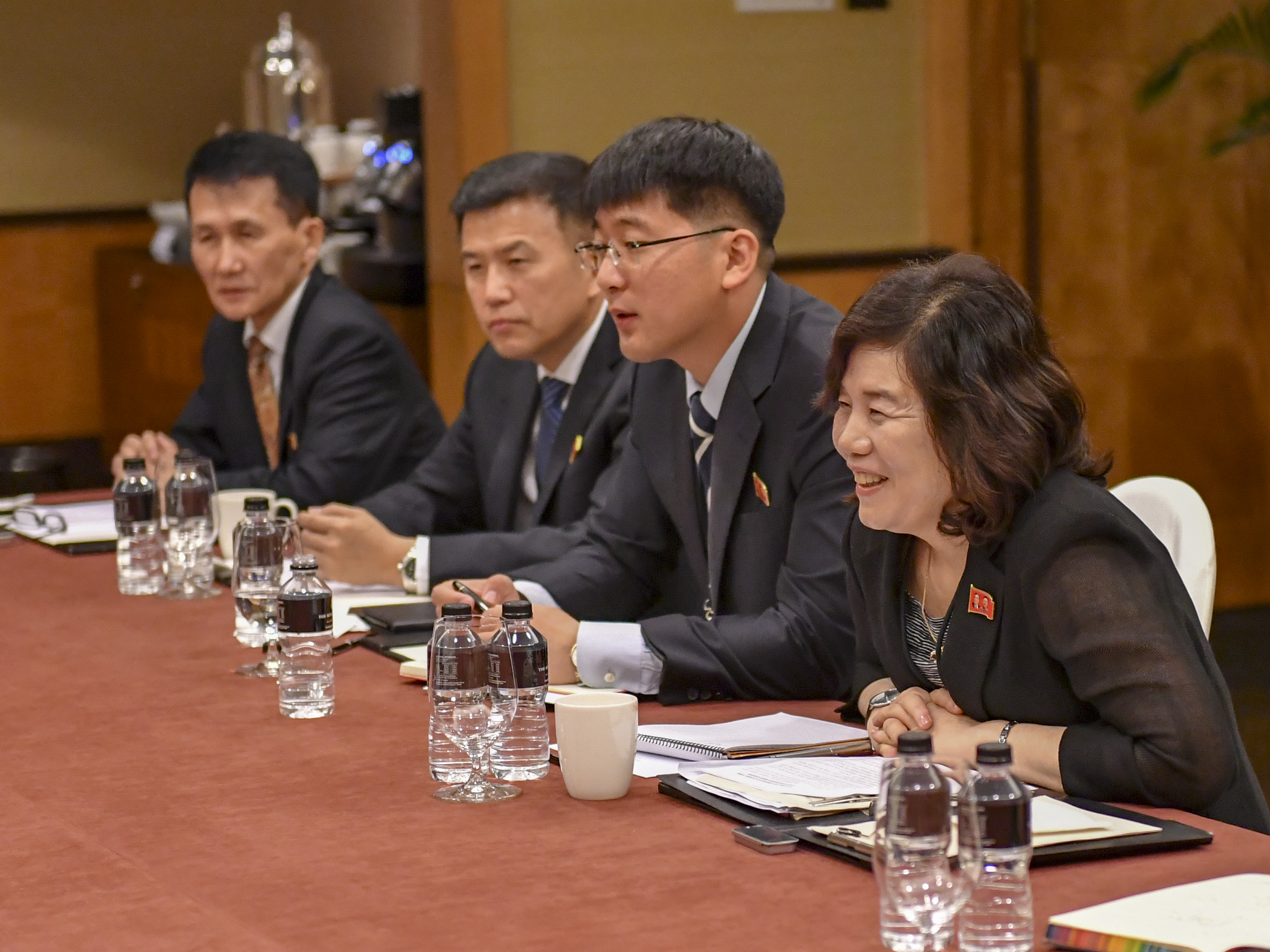 U.S. Ambassador to the Philippines Sung Kim participates in substantive and detailed meetings with DPRK Vice Foreign Minister Choe Son Hui and DPRK Ministry of Foreign Affairs officials in Singapore on June 10, 2018. [State Department photo/ Public Domain]